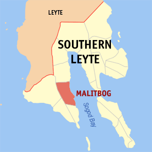 Map of Southern Leyte showing the location of Malitbog